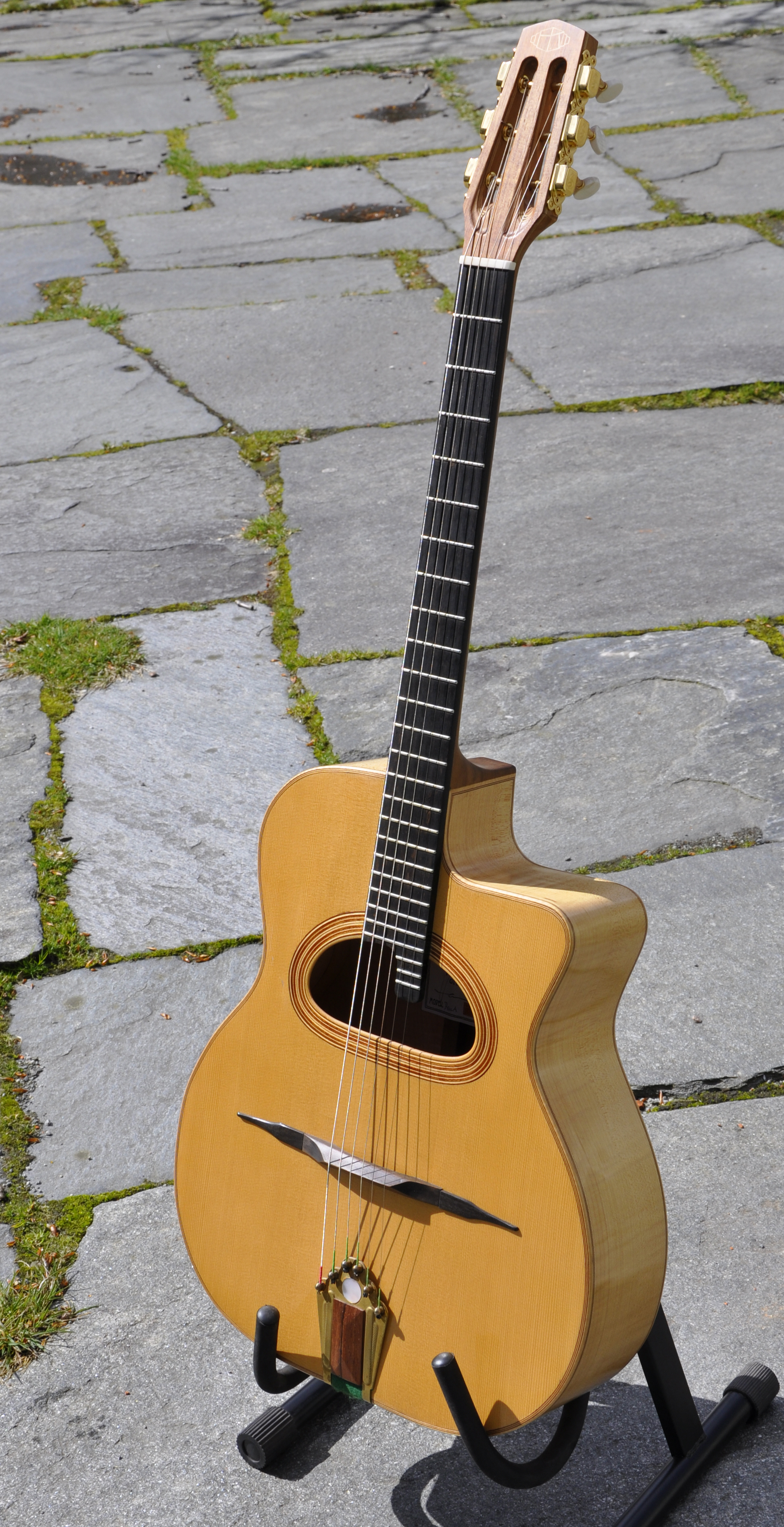 Selmer-Maccaferri jazz guitar by luthier Hanno Kiel